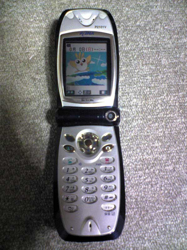 FOMA P2101V